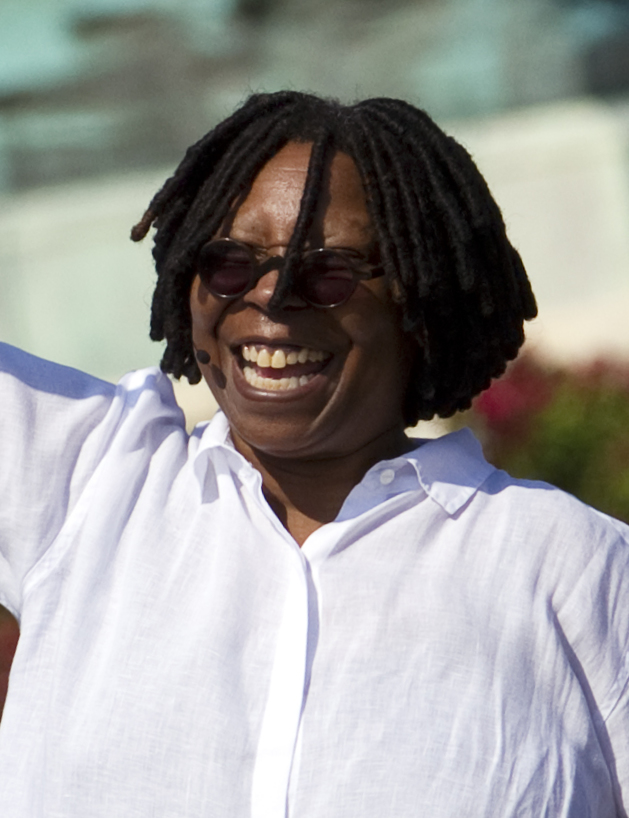 His Holiness the Dalai Lama of Tibet Talk For World Peace event in Washington DC July 9 2011, presented by the Capital Area Tibetan Association